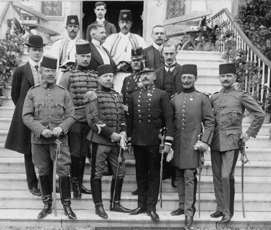 Wladimir Giesl and Alfred Rappaport Ritter von Arbengau